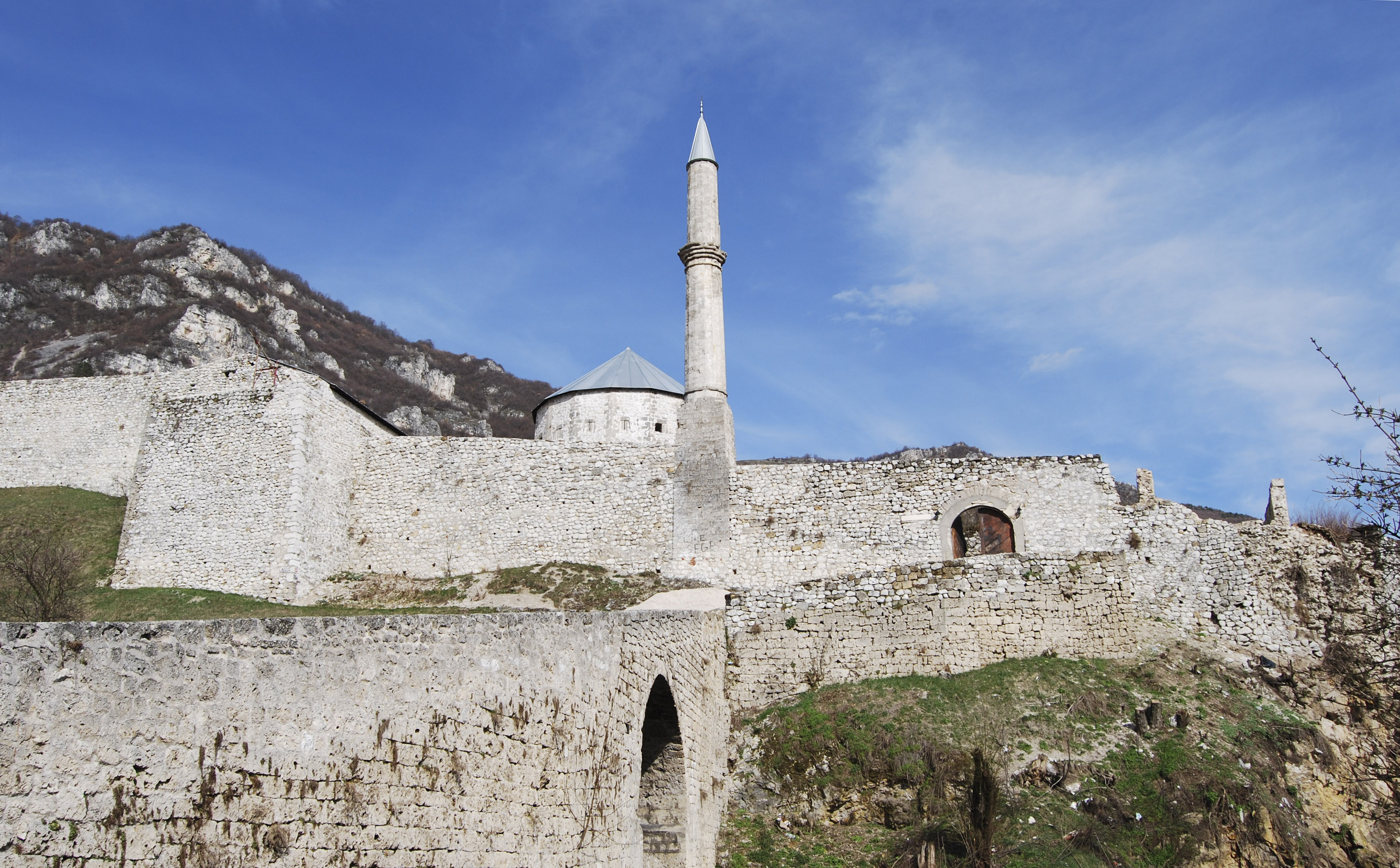 Travnik Castle